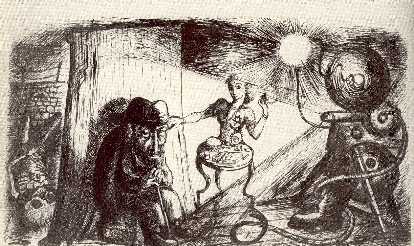 Artwork from the Theresienstadt ghetto